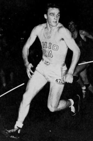 Basketball player Frankie Baumholtz